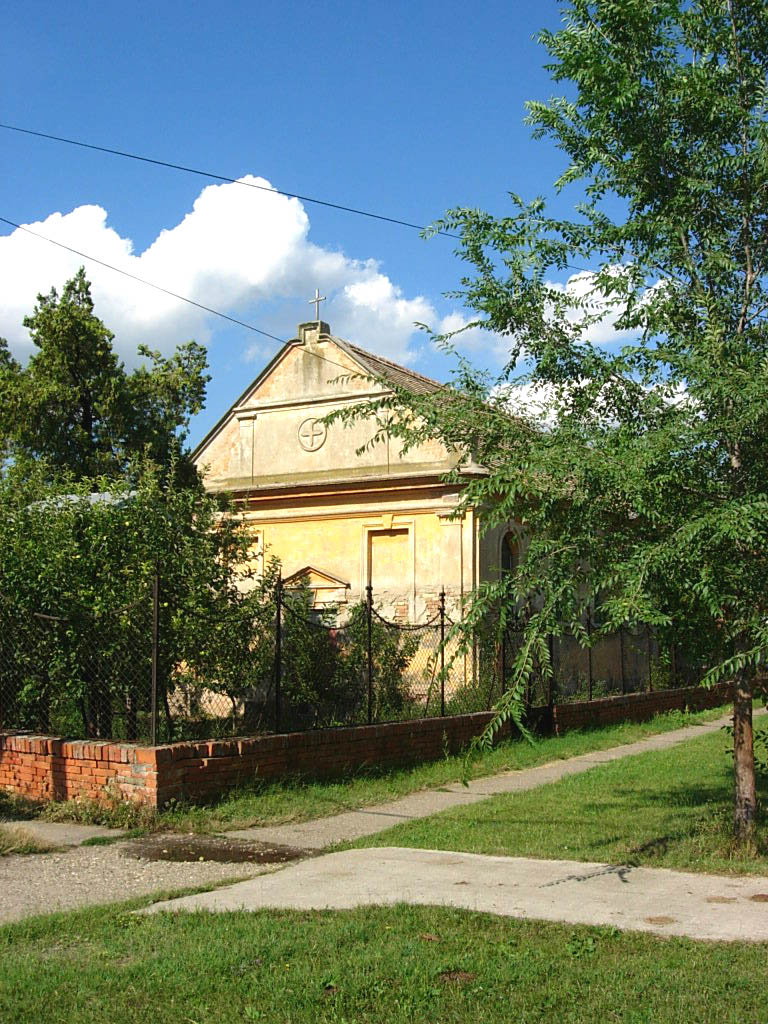 The Uniate church in Jankov Most.